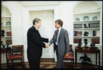 John Kasich greets Ronald Reagan.